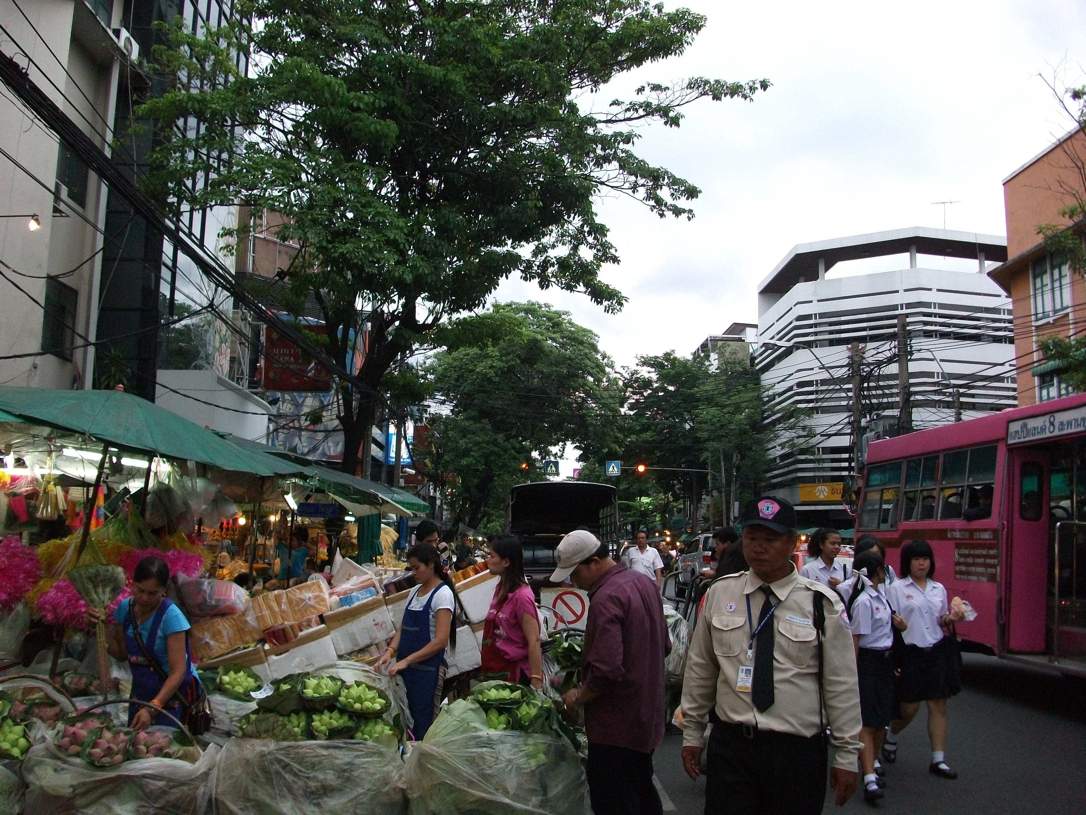 Pakklongtalad, Bangkok, Thailand.